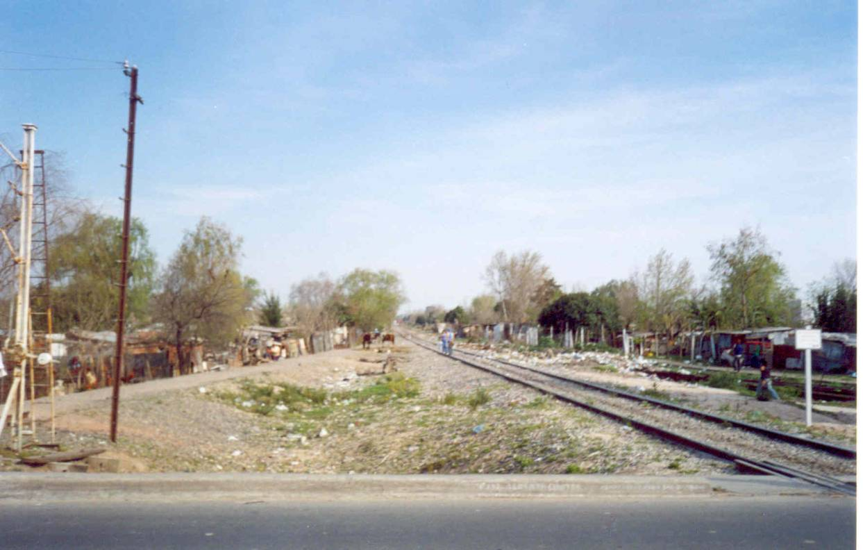 A view of a small villa miseria (shanty town) in the north-east of Rosario, Argentina, beside a railtrack. This group of precarious homes is the remains of an initially larger settlement, consisting mostly of immigrants of the Toba tribe from the Chaco Province, who came to Rosario and other large cities in significant amounts during the 1990s. I, Pablo D. Flores, took this picture myself, in September 2005.